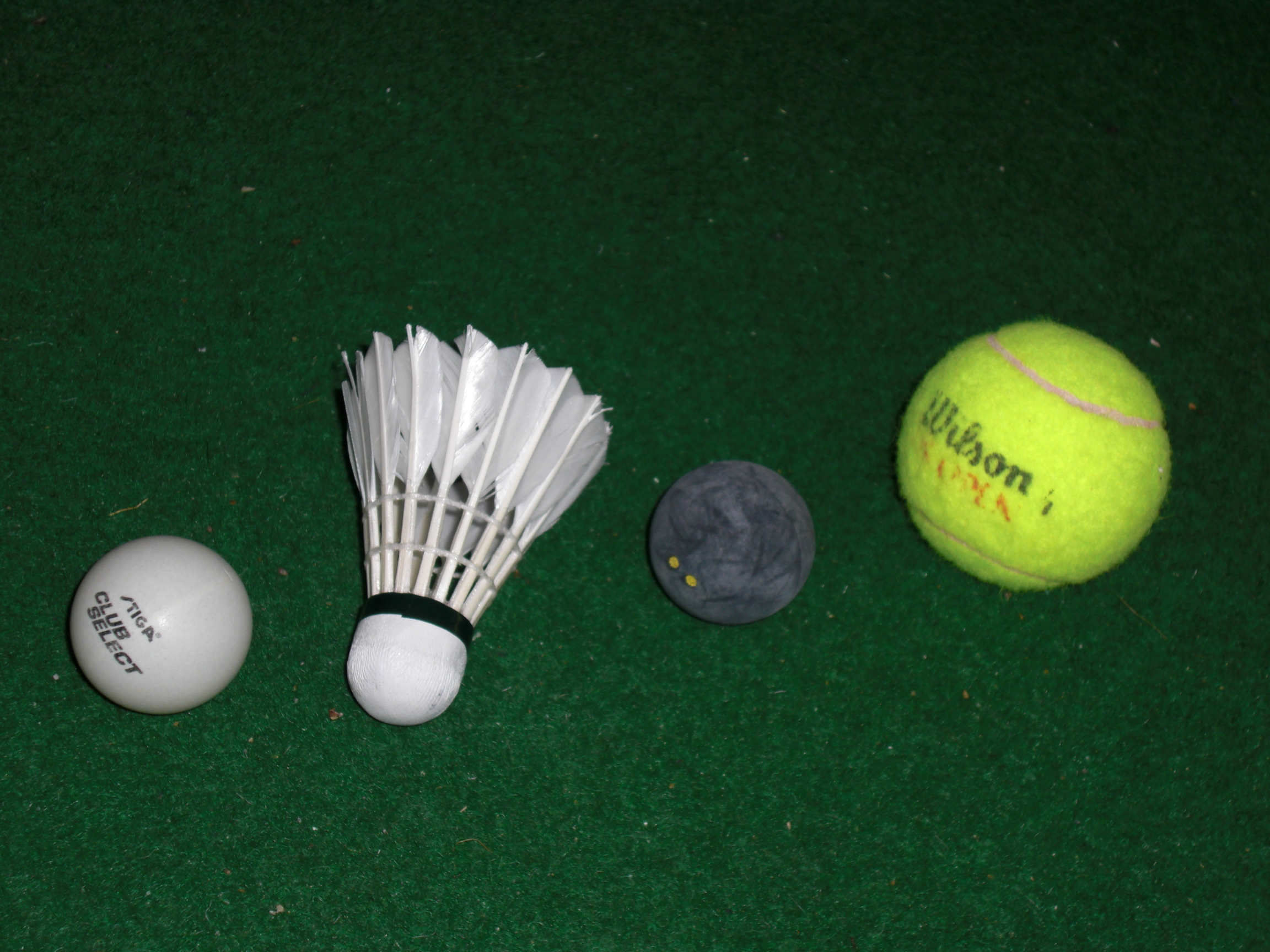 The four types of balls used in racketlon.